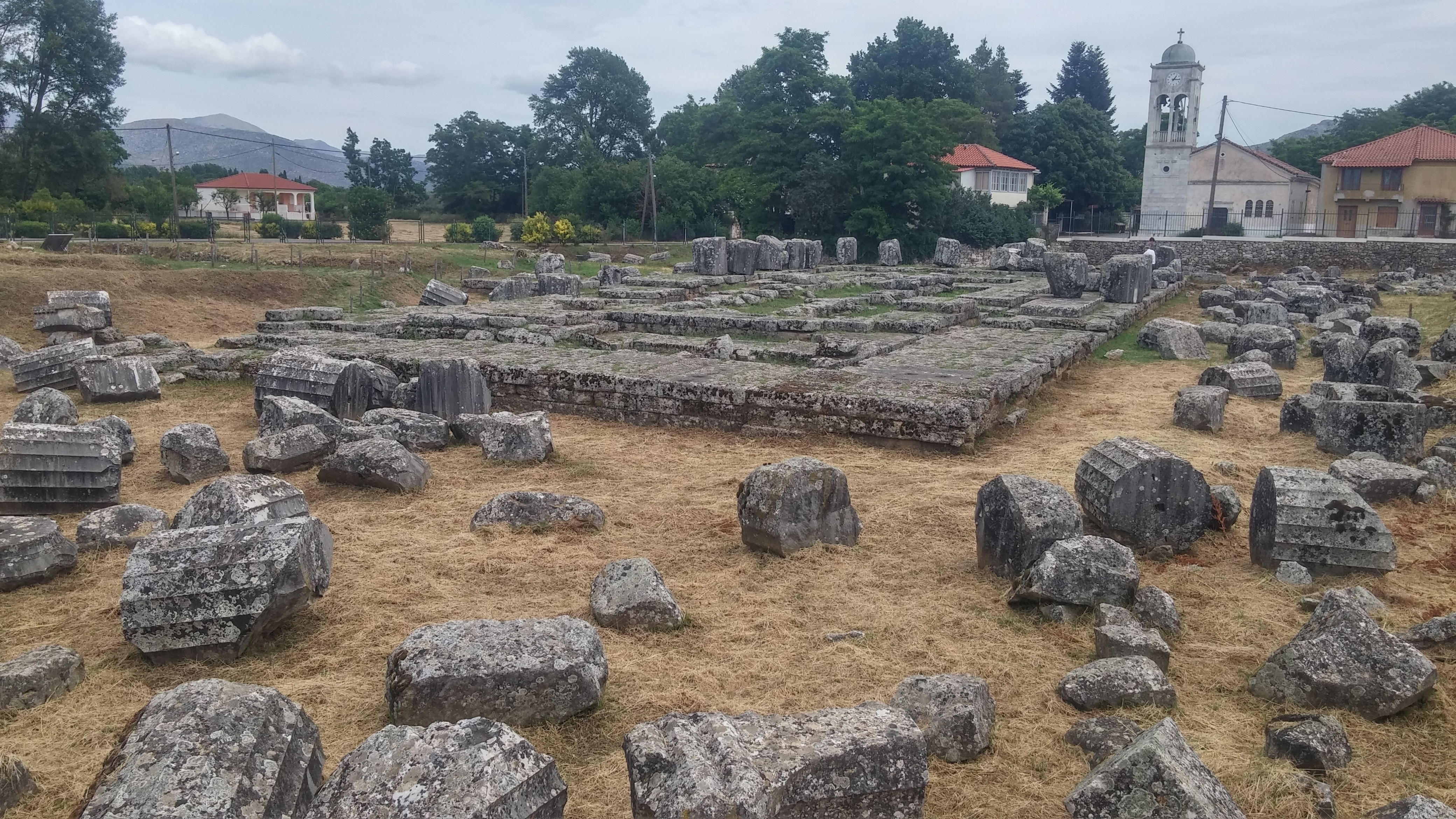 Archaeological site of the Temple of Athena Alea at Tegea (2017)